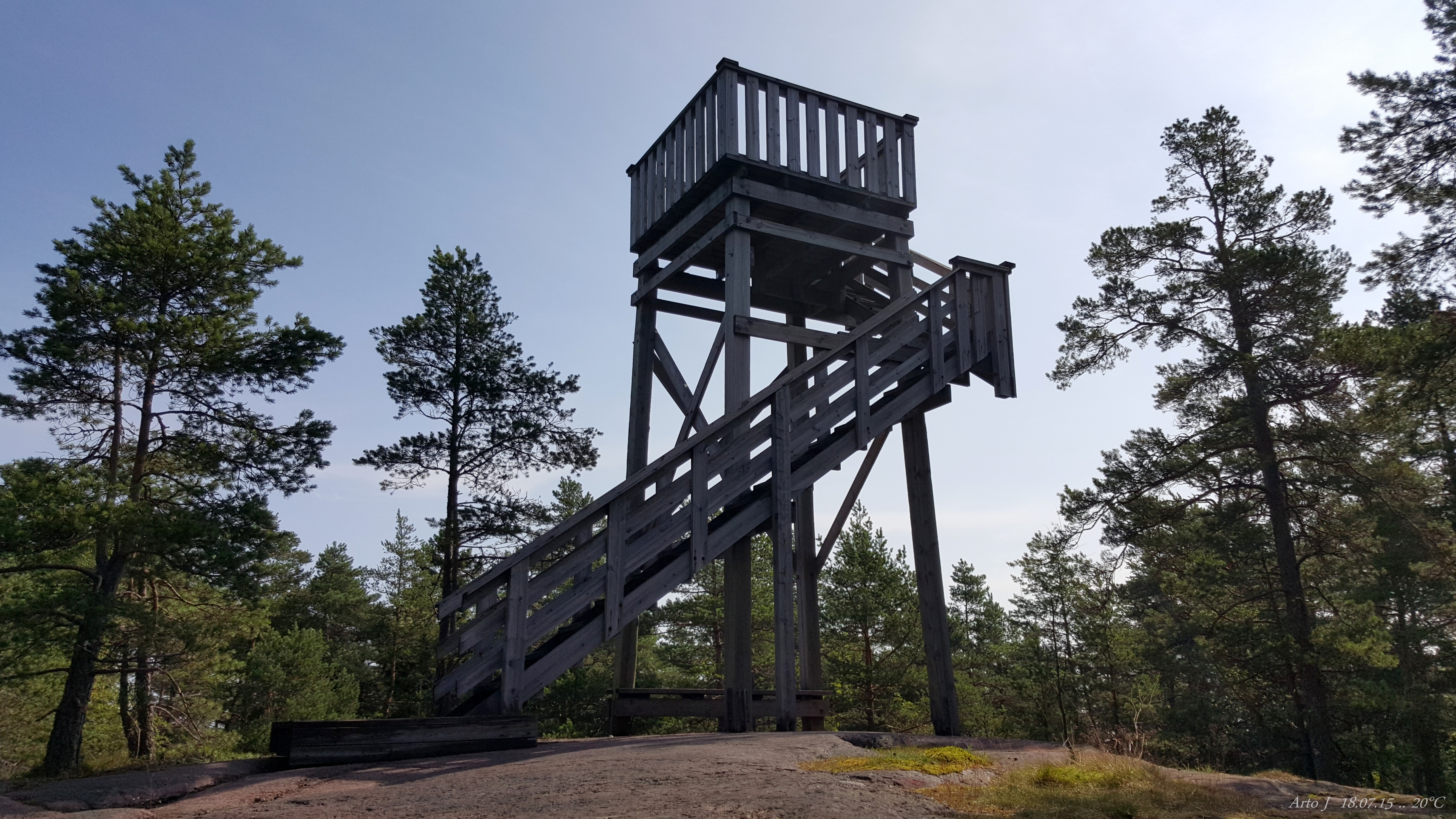 OOPS... Now, I'm Powerless / Big Calf Island